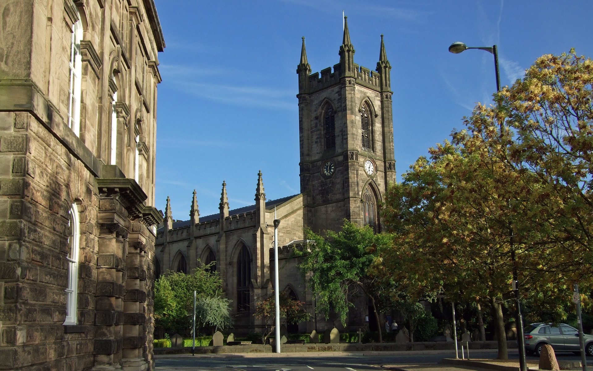 West tower of the parish church of St Peter ad Vincula, Stoke on Trent, Staffordshire, seen from the north